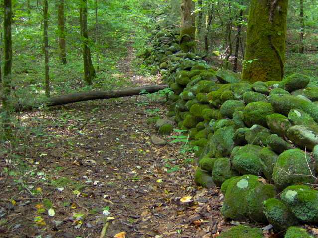 Dry stone wall in the Sugarlands, Great Smoky Mountains National Park, in East Tennessee. This particular wall is located just west of Leconte Creek, along the Old Sugarlands Trail. When settlers arrived in the valley in the 1800s, sandstone rocks littered the ground. The settlers stacked them up in large piles, or, as in this case, used them in lieu of barbed wire fencing.